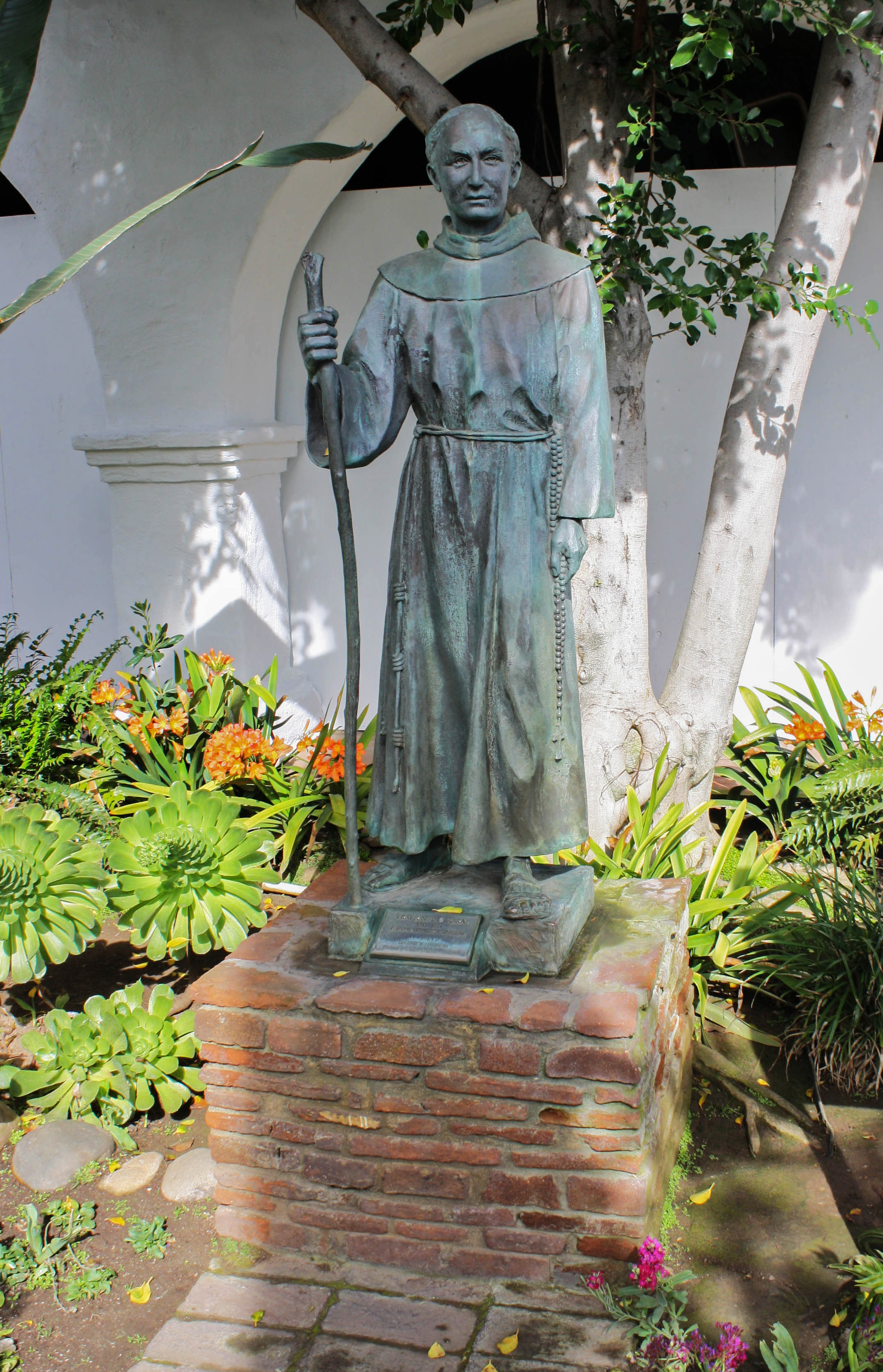 Statue of Junípero Serra at the Mission San Diego de Alcalá, San Diego, California